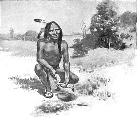 Squanto or Tisquantum teaching the Plymouth colonists to plant corn with fish.